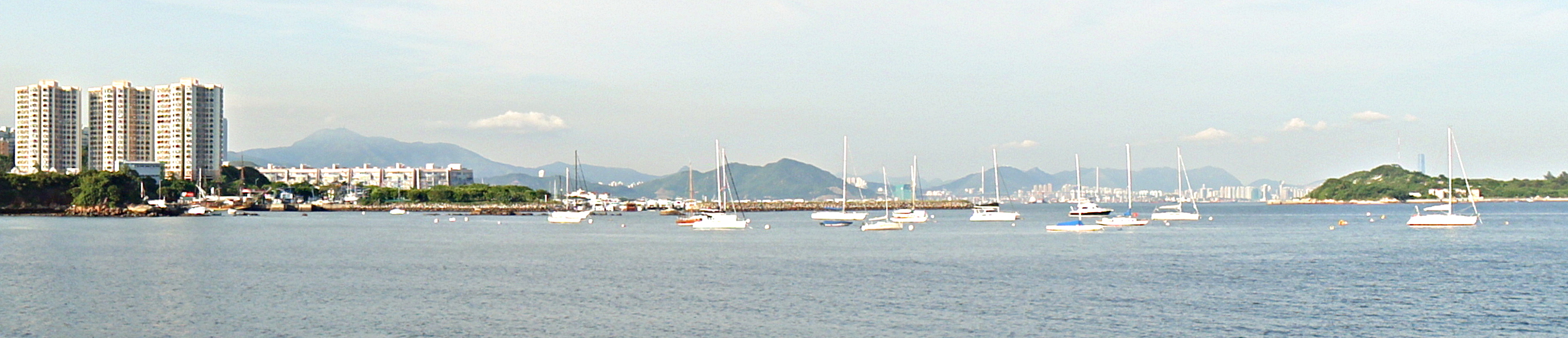 A view of Discovery Bay, Hong Kong